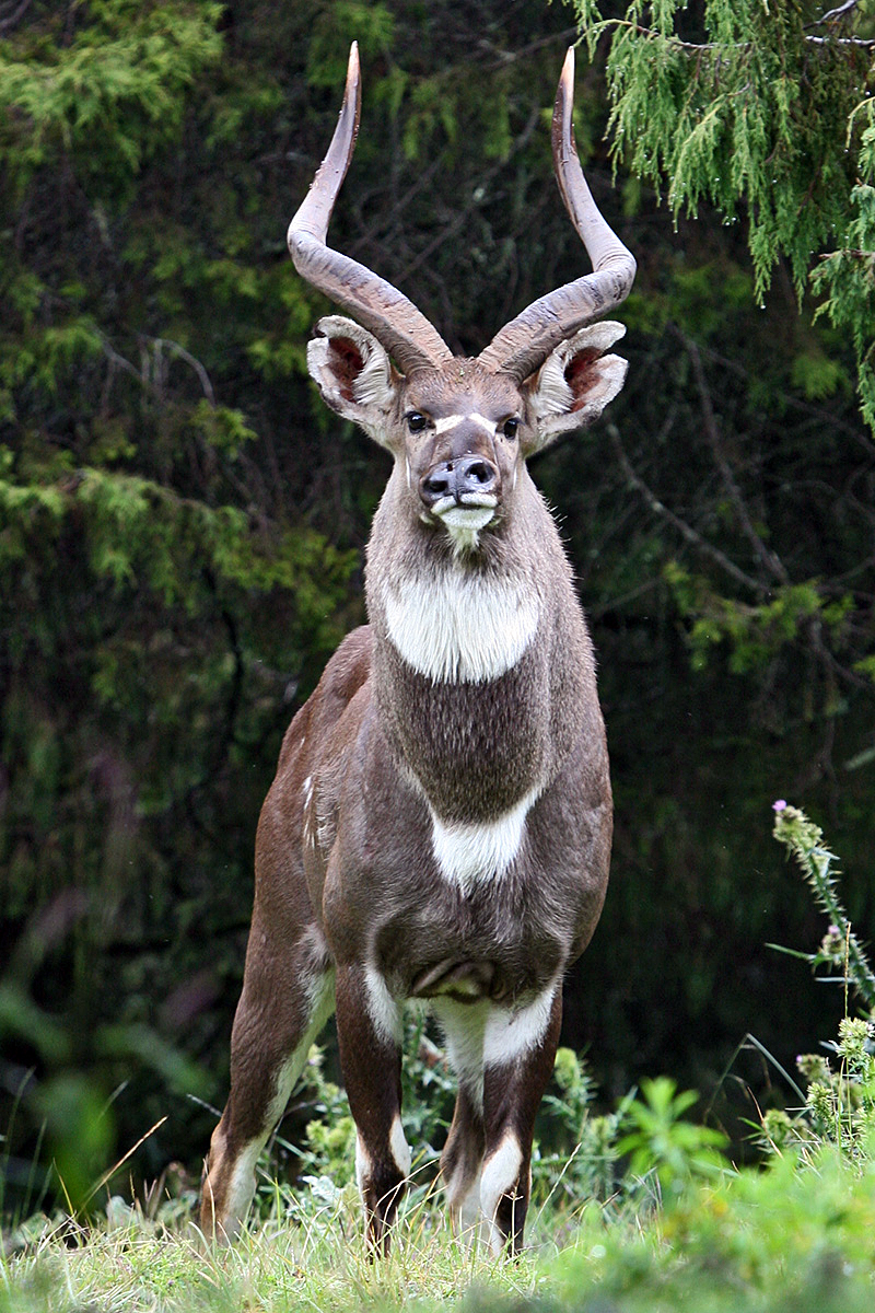 Mountain Nyala photographed in Bale mountains national park in the fenced area around the park headquarters